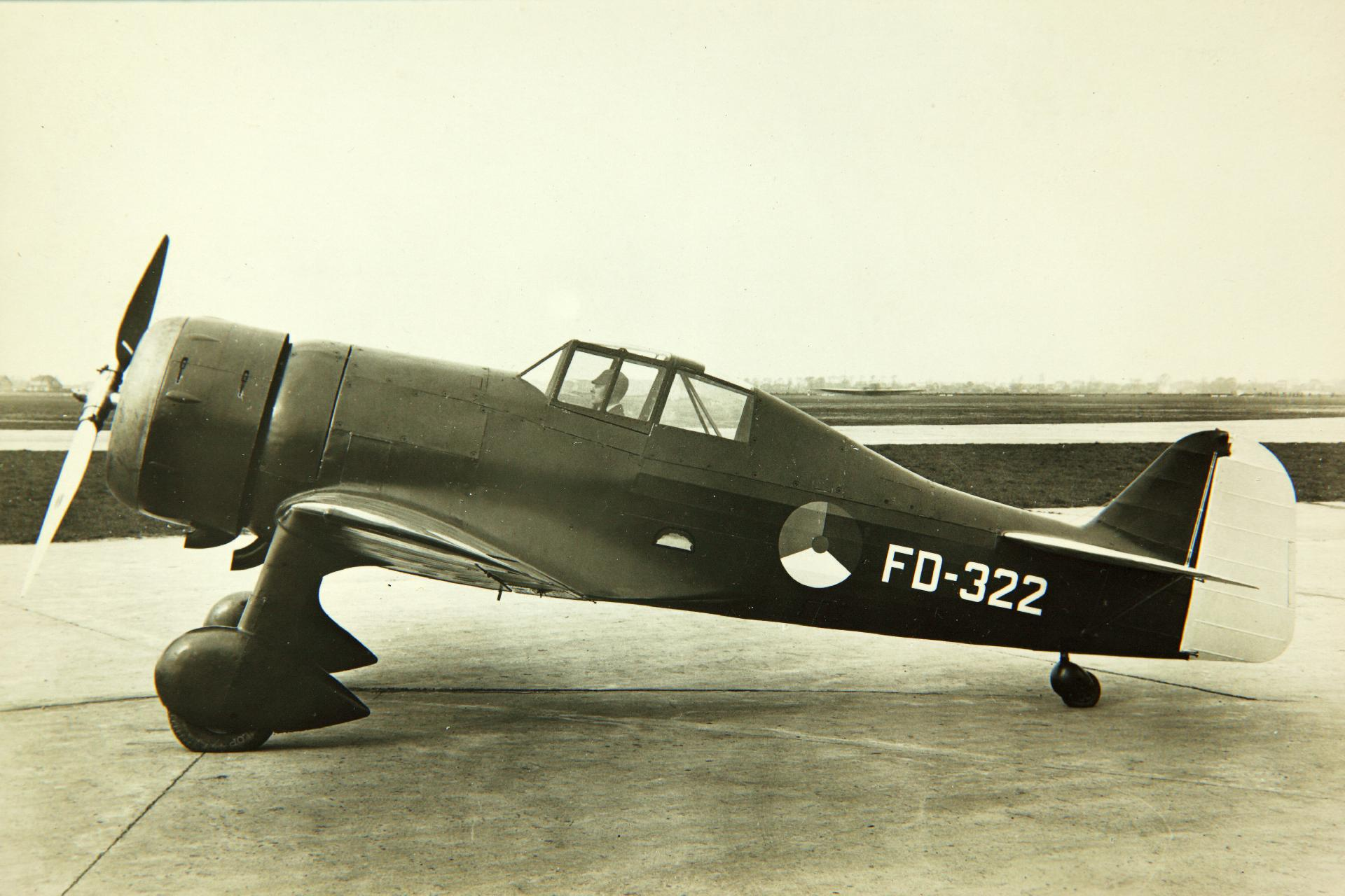 Fokker D.XXI. Prototype